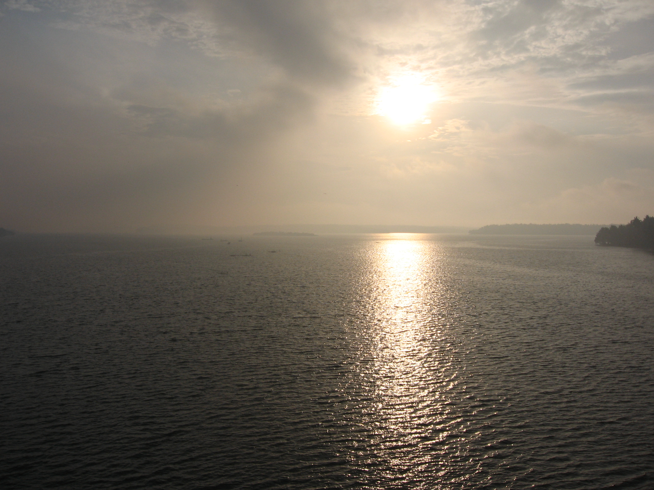 Ashtamudi lake. Peruman tragedy was happened here in 1988. Photograph taken from moving train.